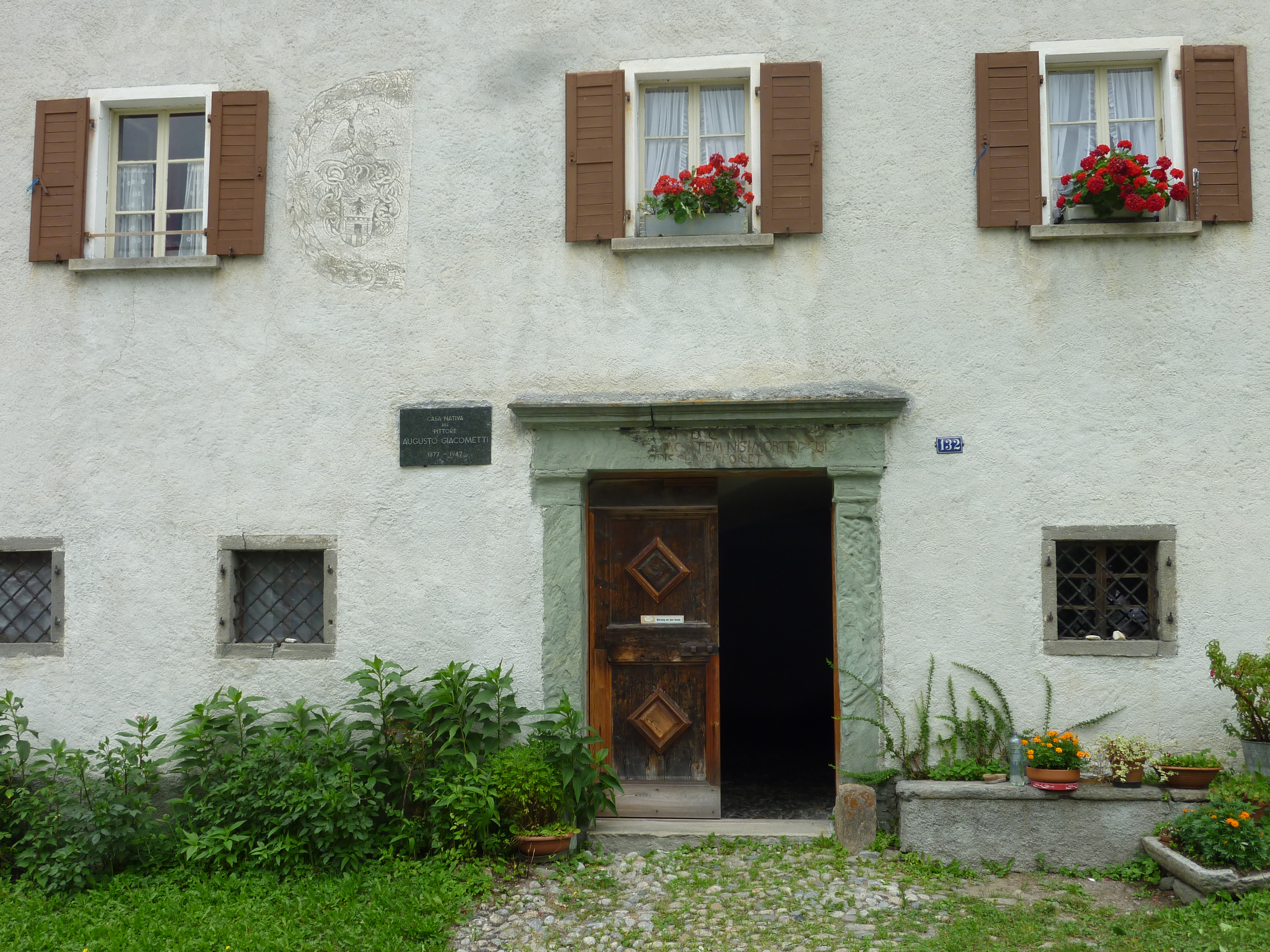 Augusto Giacomettis Geburtshausi in Stampa GR